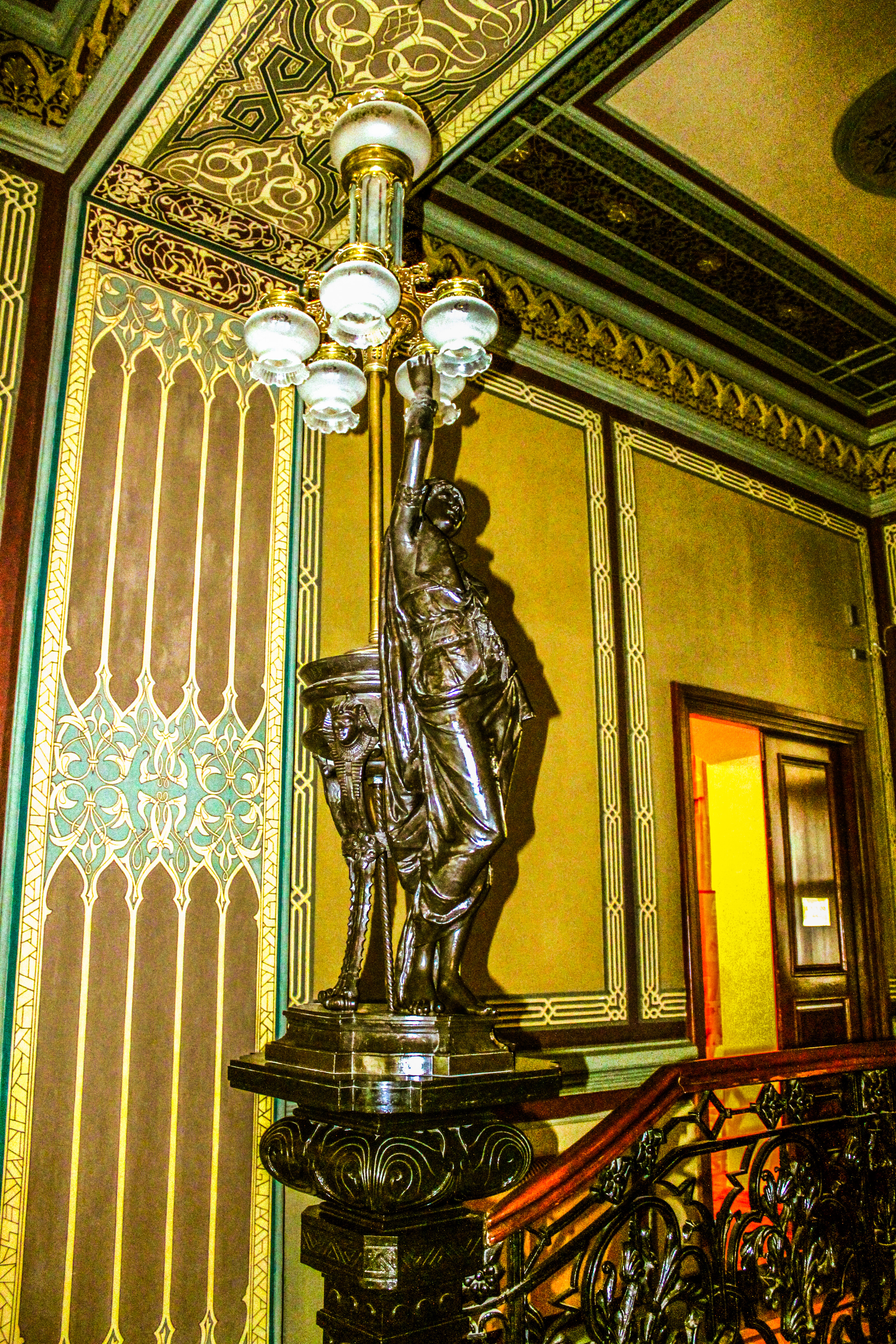 Interior of H.Z. Tagiyevs palace